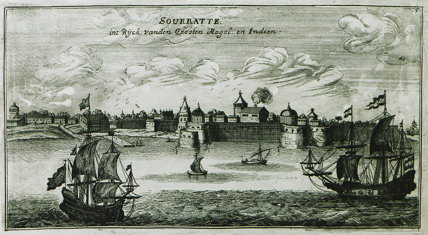 Jacob Peeters. Description des principales villes, havres et isles du golfe de Venise du coté oriental. Comme aussi des villes et forteresses de la Moree, et quelques places de la Grèce, Antwerp, Sur le marché des vieux Souliers, 1690.